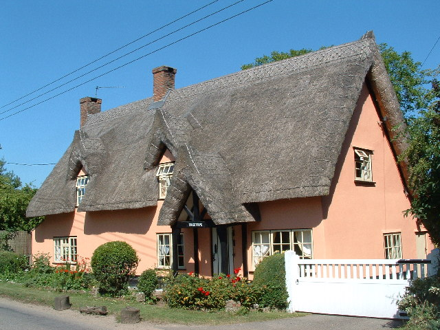 Treetops, Hunston. Treetops is a mid 16th century long straw thatched house in the Hamlet of Hunston. It was known to be a boot maker's at the turn of the 19th century.